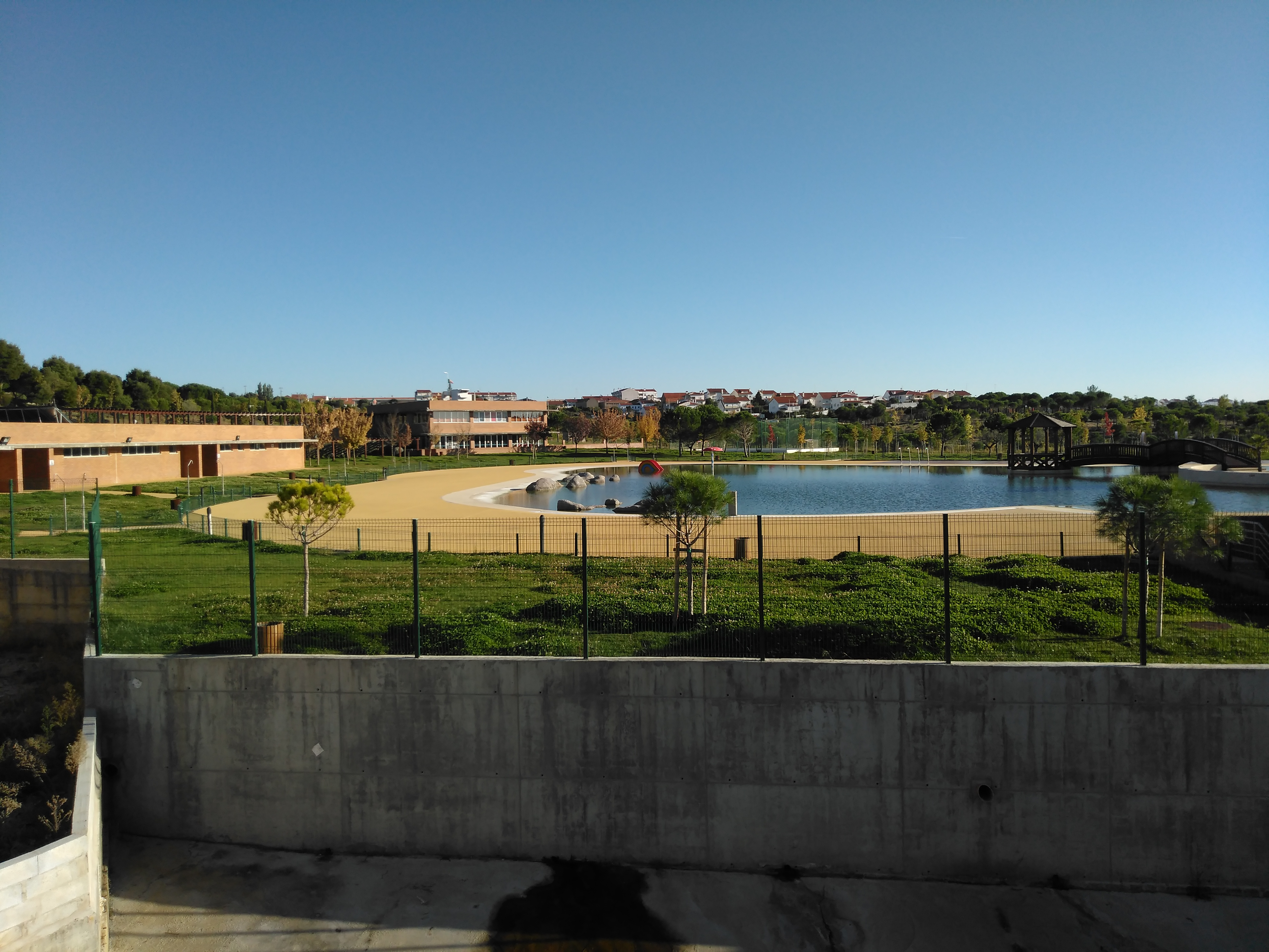 Different view of Piscina Praia